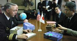 Governor of Akita Sukeshiro Tarata and Captain Gonzales Exchange Gifts as a Mark of Friendship.